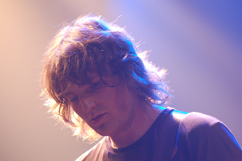 James Walsh of Starsailor - live at "Music In My Head", 09.06.2007